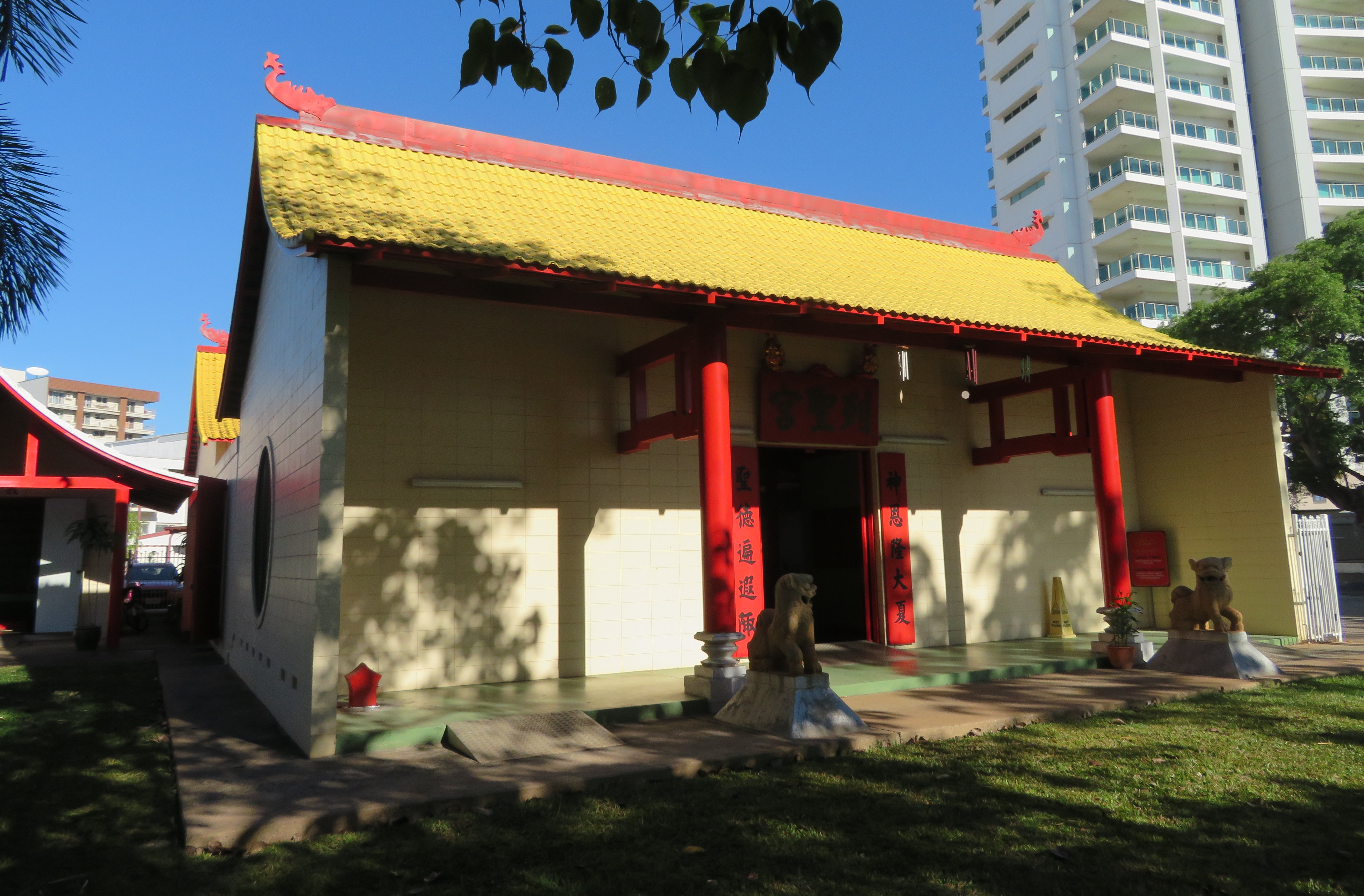 Chinese Temple in Darwin, Australia